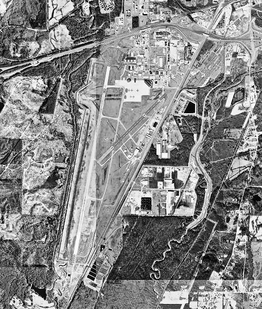 Aerial image of Meridian Regional Airport, Mississippi